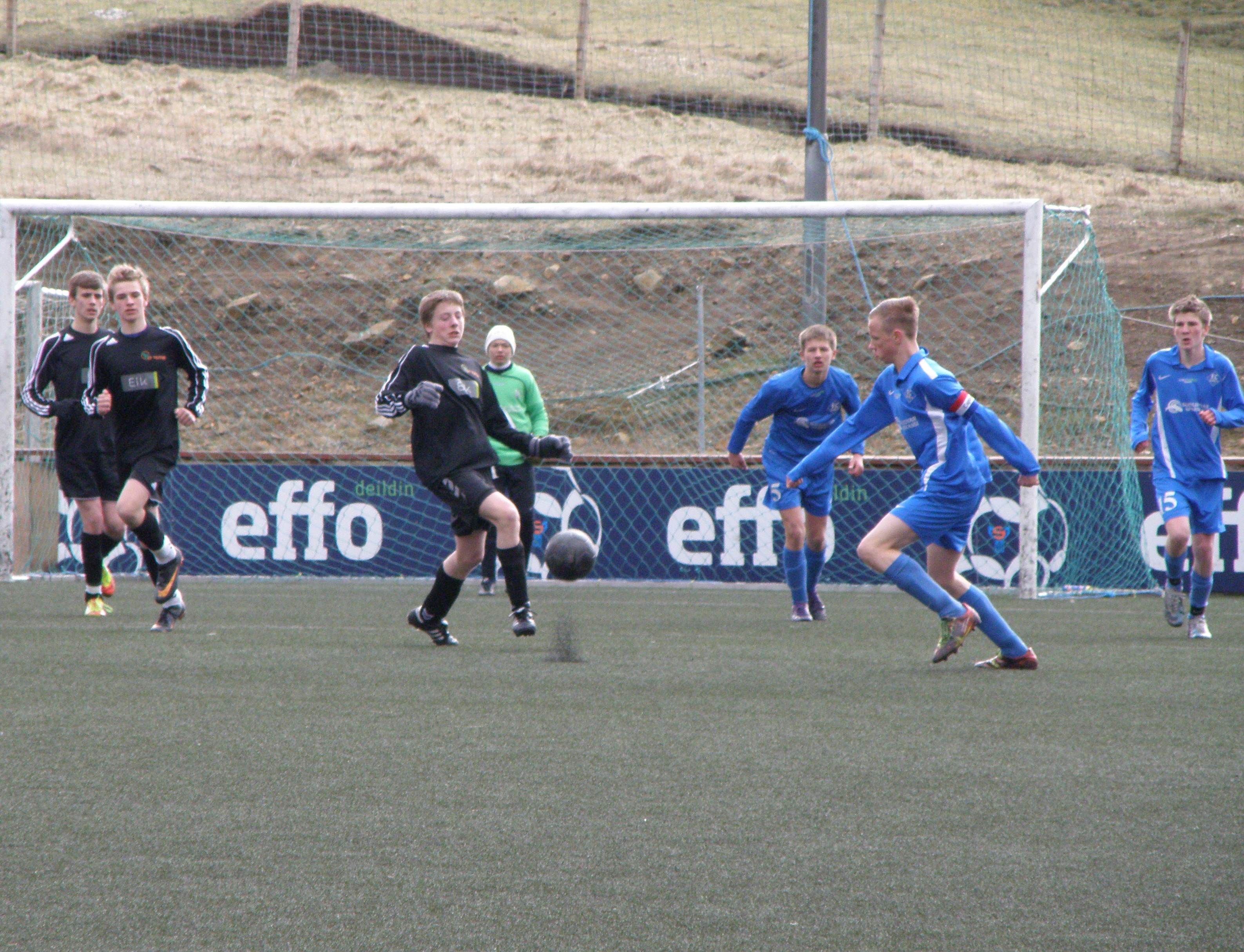 The quarterfinal in the Faroe Islands Cup for Boys U16 on 28 April 2012 between FC Suðuroy and 07 Vestur. FC Suðuroy won 4-1. The boys on the photo are from left to right: Beinir Guttesen, Fríði Joensen, Høgni Egilstoft Nielsen, Ólavur Ludvig (goal keeper), Dánjal Godtfred, Búi Egilsson and Eiler Brattalíð. Føroyskt: Fótbóltsdystur á Eiðinum í Vági hin 28. apríl 2012, kvartfinala í steypakappingini hjá dreingjum U16 millum FC Suðuroy og 07 Vestur. FC Suðuroy vann dystin 4-1. Dreingirnir á myndini eru frá vinstru til høgru: Beinir Guttesen, Fríði Joensen, Høgni Egilstoft Nielsen, Ólavur Ludvig (málmaður), Dánjal Godtfred, Búi Egilsson og Eiler Brattalíð.